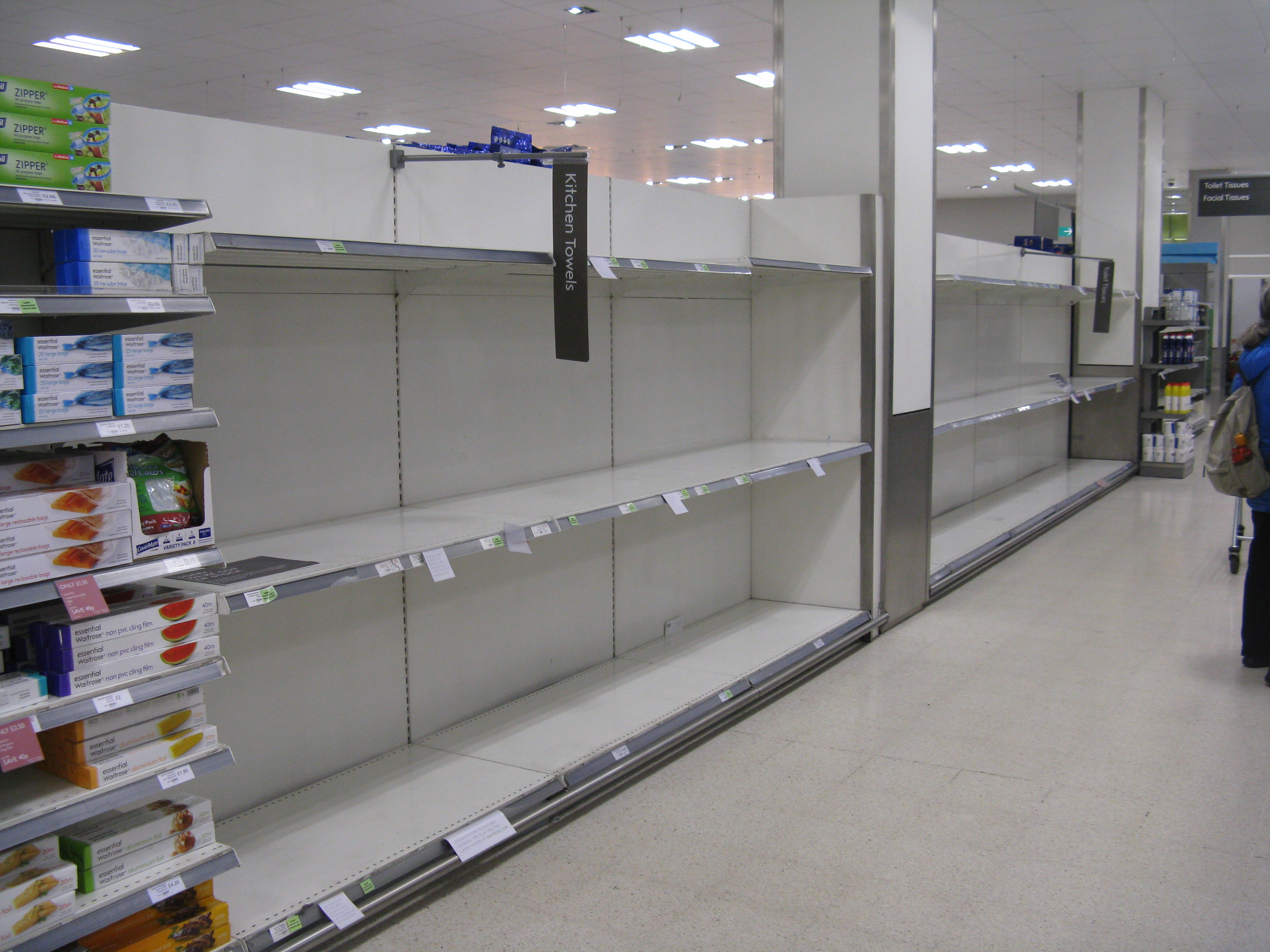 Don't panic, but we're dooomed!